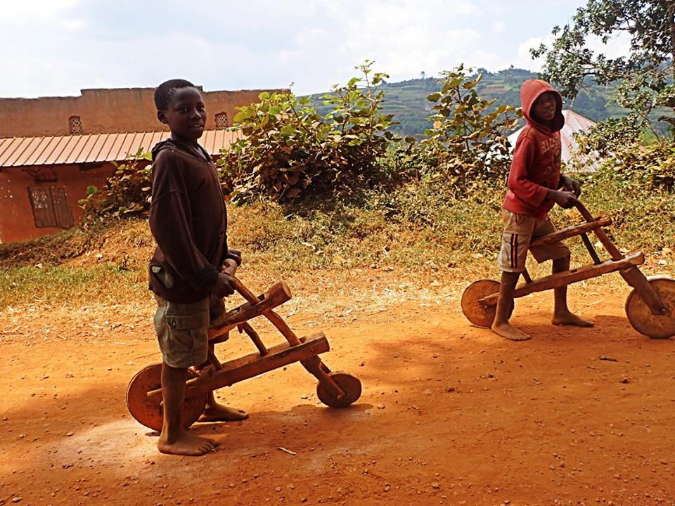 Kids with self made wooden bicycle This is an image with the theme "Play" from: Uganda